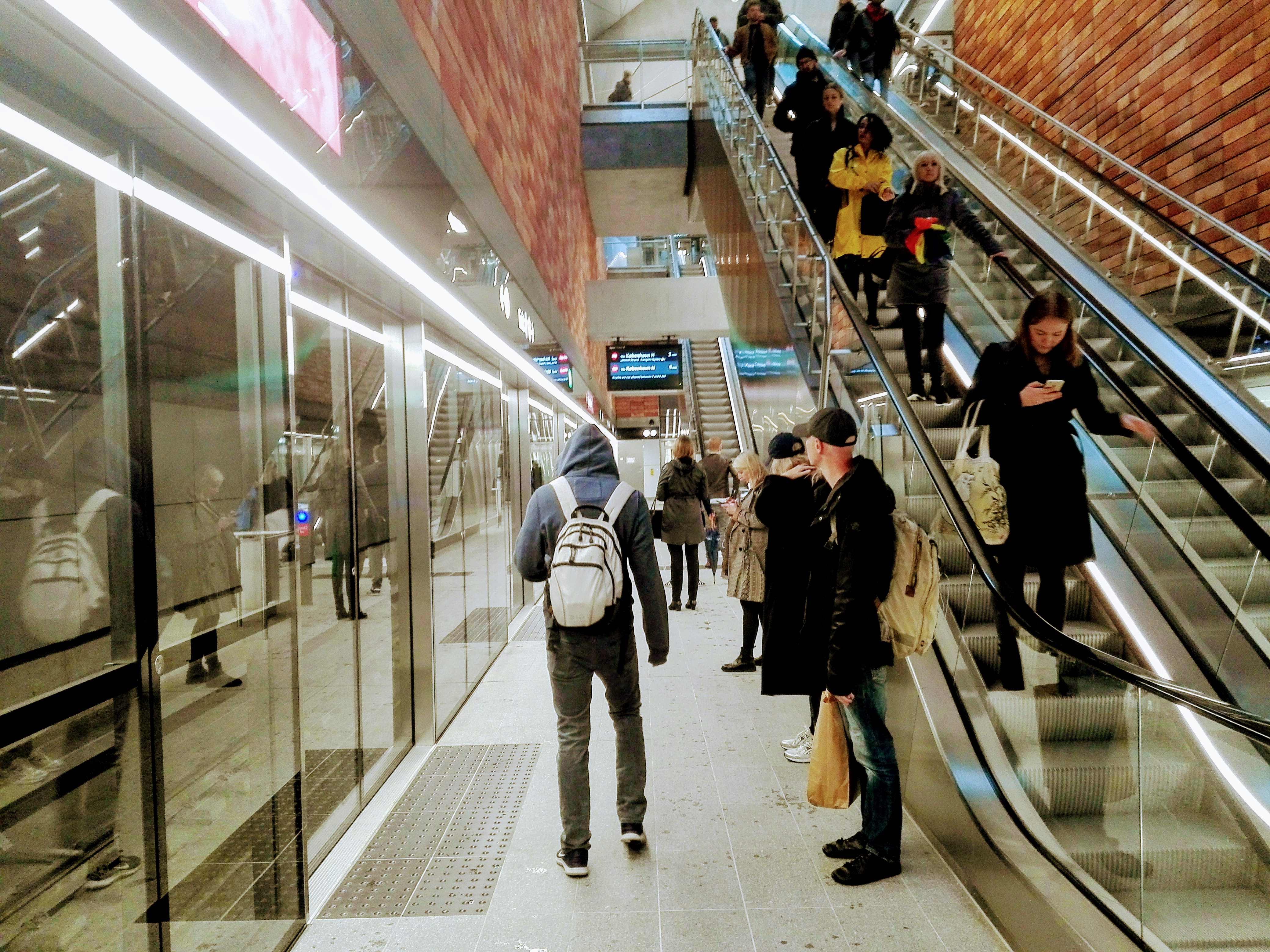 Platform level